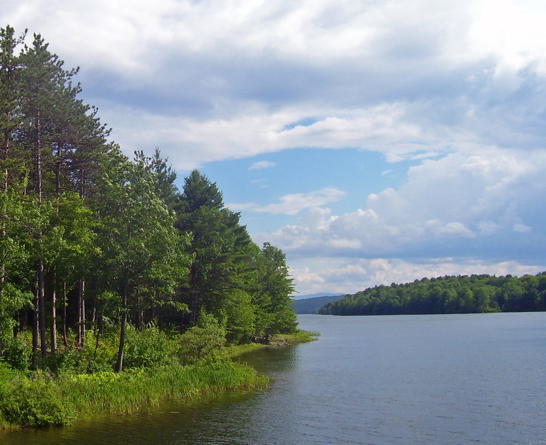 Alcove Reservoir, Coeymans, NY, USA. Main water supply for Albany, seen from NY 32